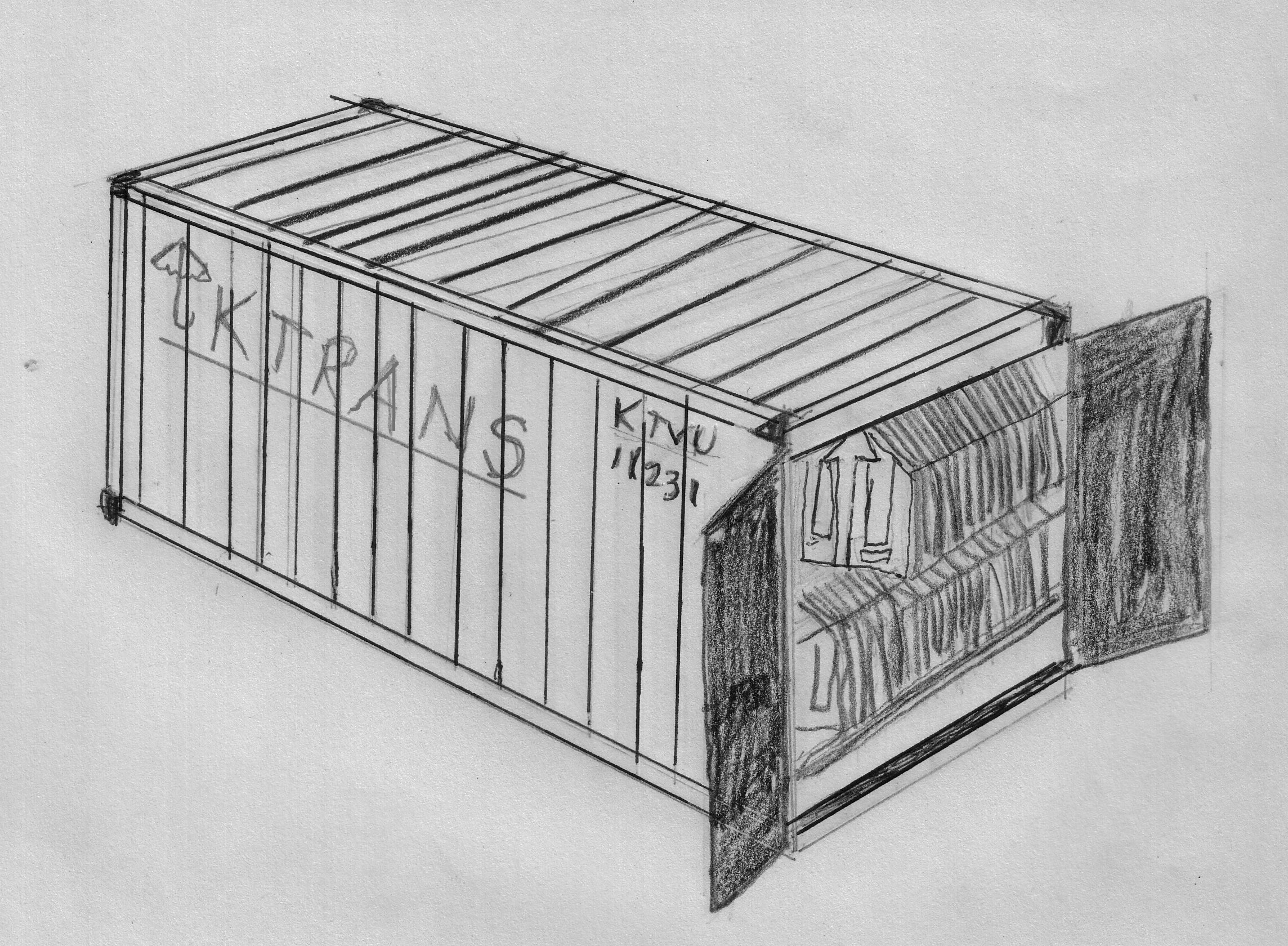 Ink and pencil drawing of a fictional GOH (Garments on Hangers) container.